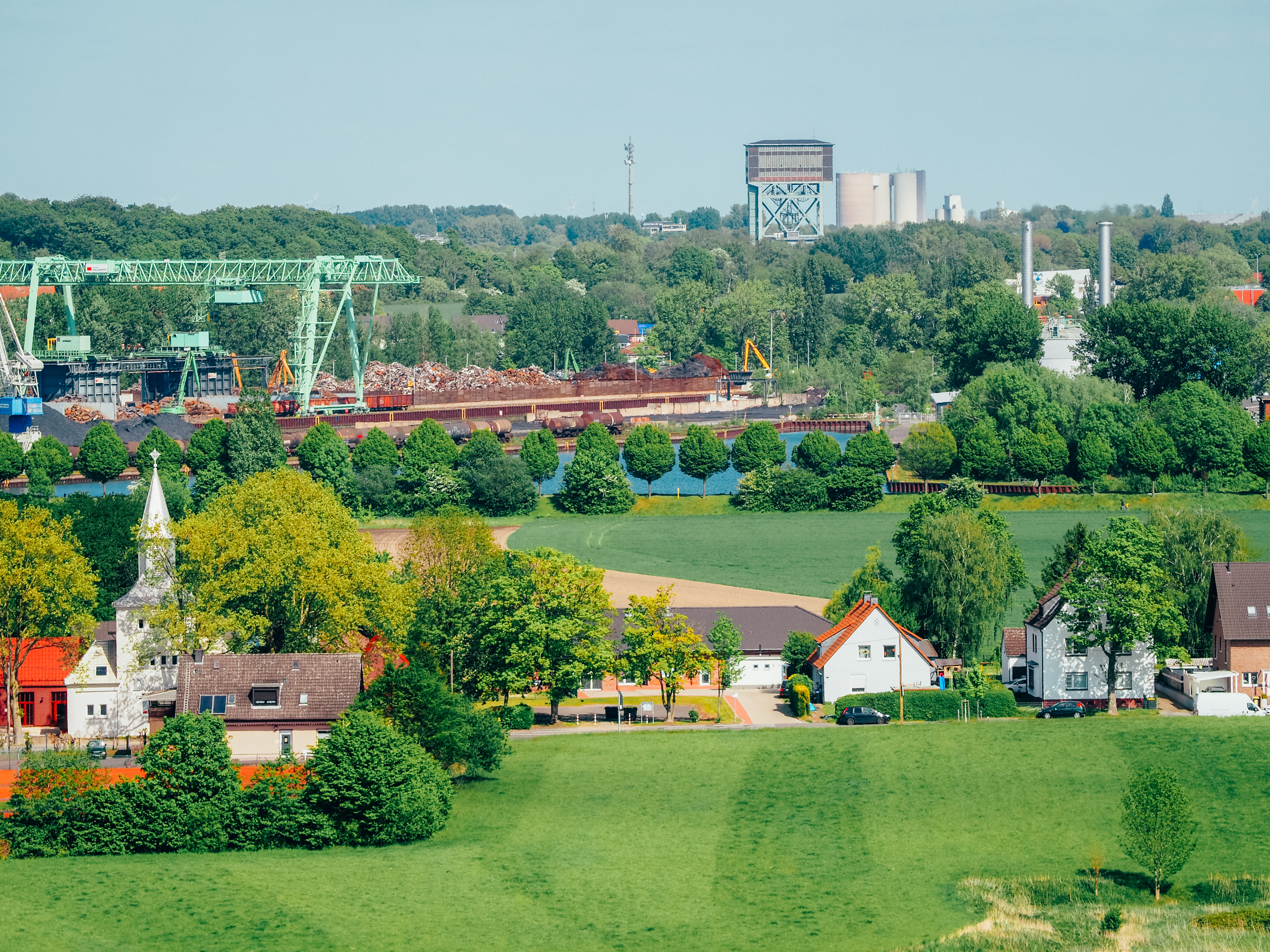 Deusen Village